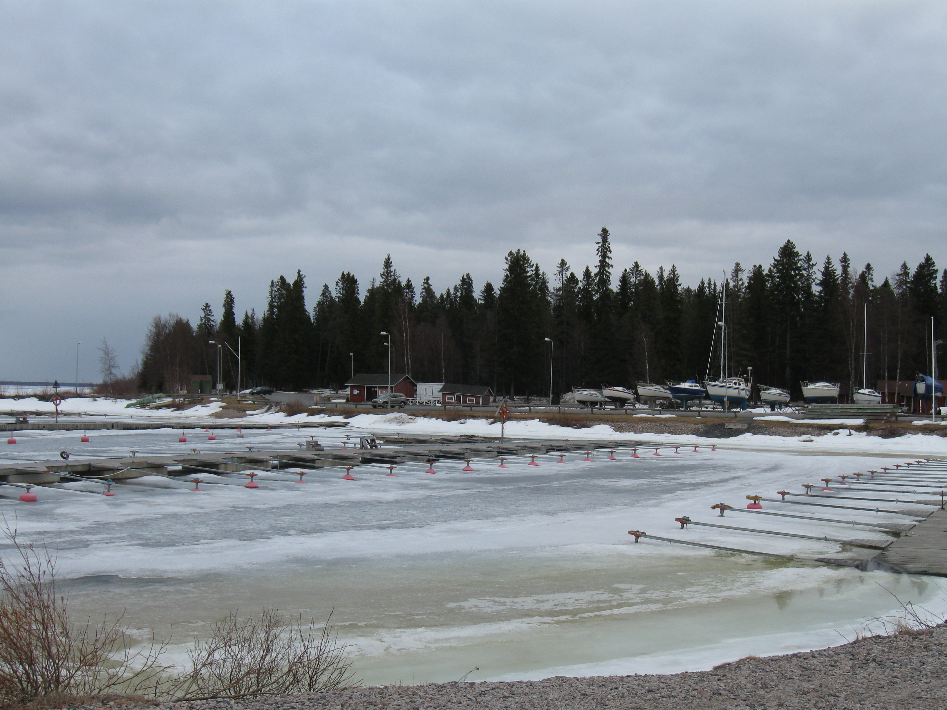 The Varjakka small boat harbour in Oulunsalo, Finland.